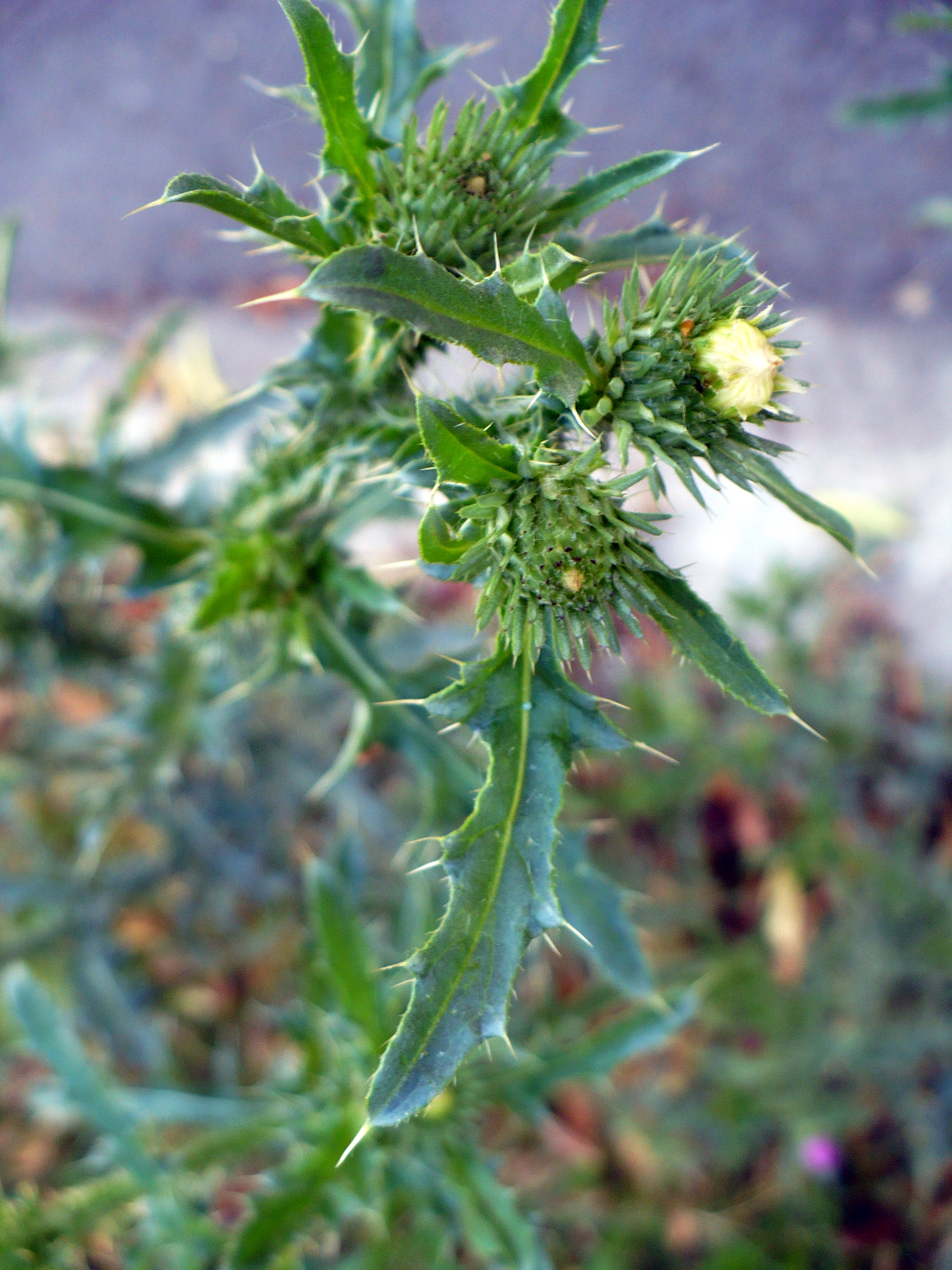 Carduus acanthoides